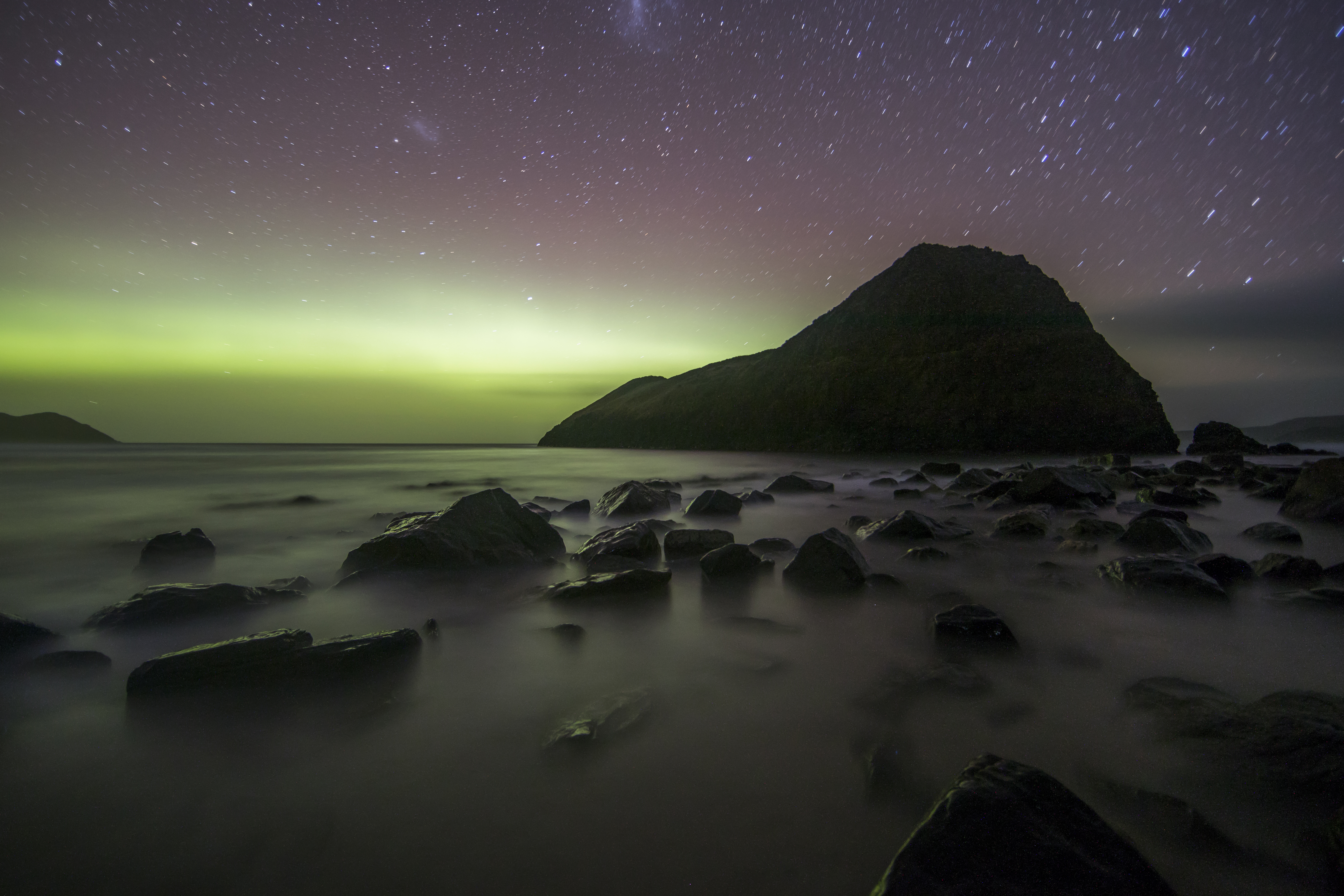 Lion Rock from the beach in South Tasmania, Southwest National Park